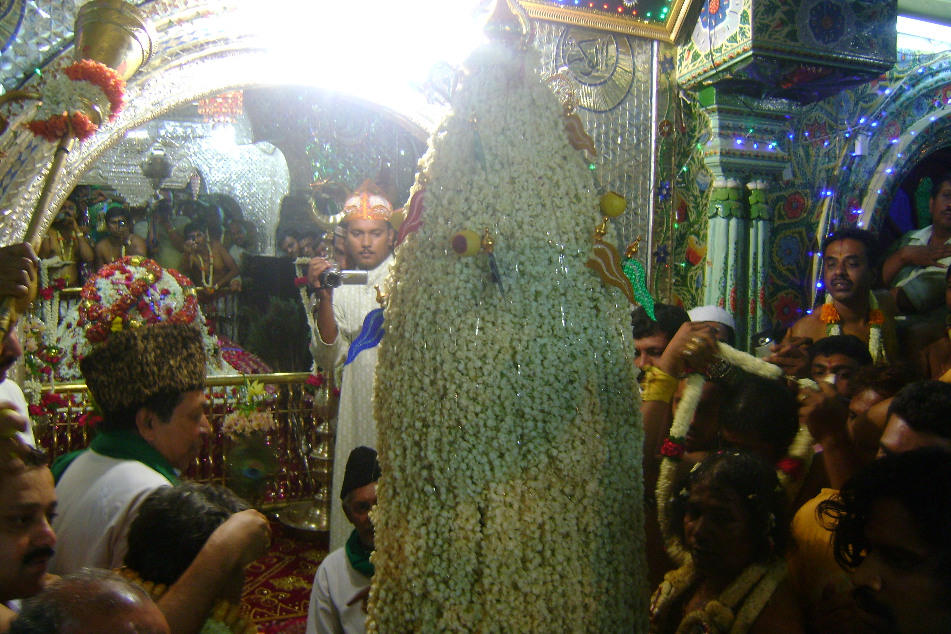 An overjoyed Mastan prayed to Draupadi that the procession should halt at his dargah (grave) after his death. This tradition has been maintained over the years, giving a distinct secular flavor to the festival.